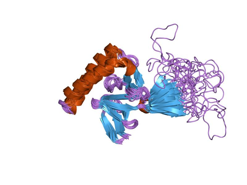 Cartoon representation of the molecular structure of protein registered with 1h7y code.